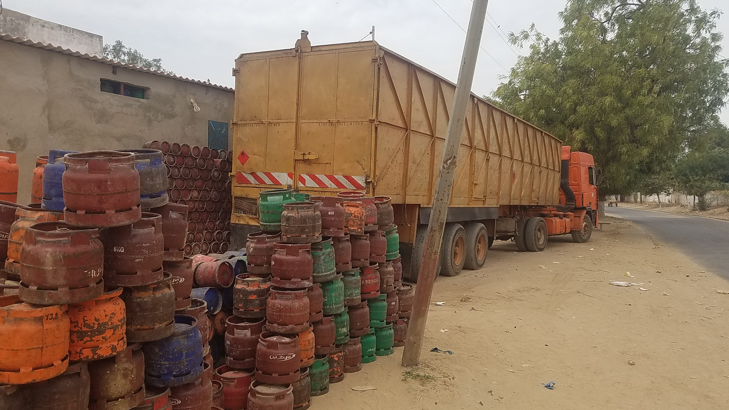 Truck Delivering gas bottles to gas depots This is an image with the theme "Africa on the Move or Transport" from: Senegal